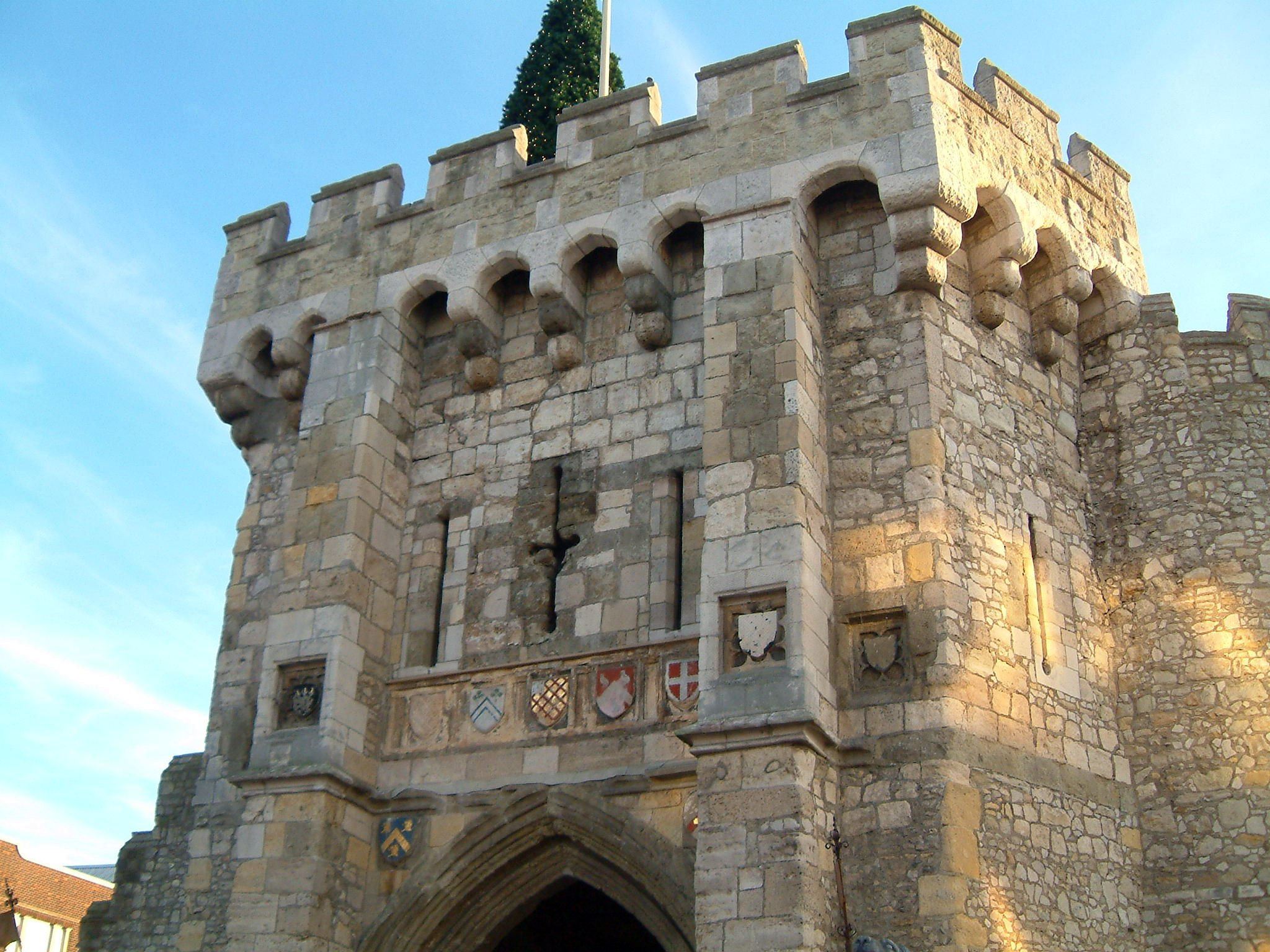 Upper storey, north face, Bargate, Southampton, Hampshire, England